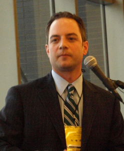 RPW Chairman Reince Priebus